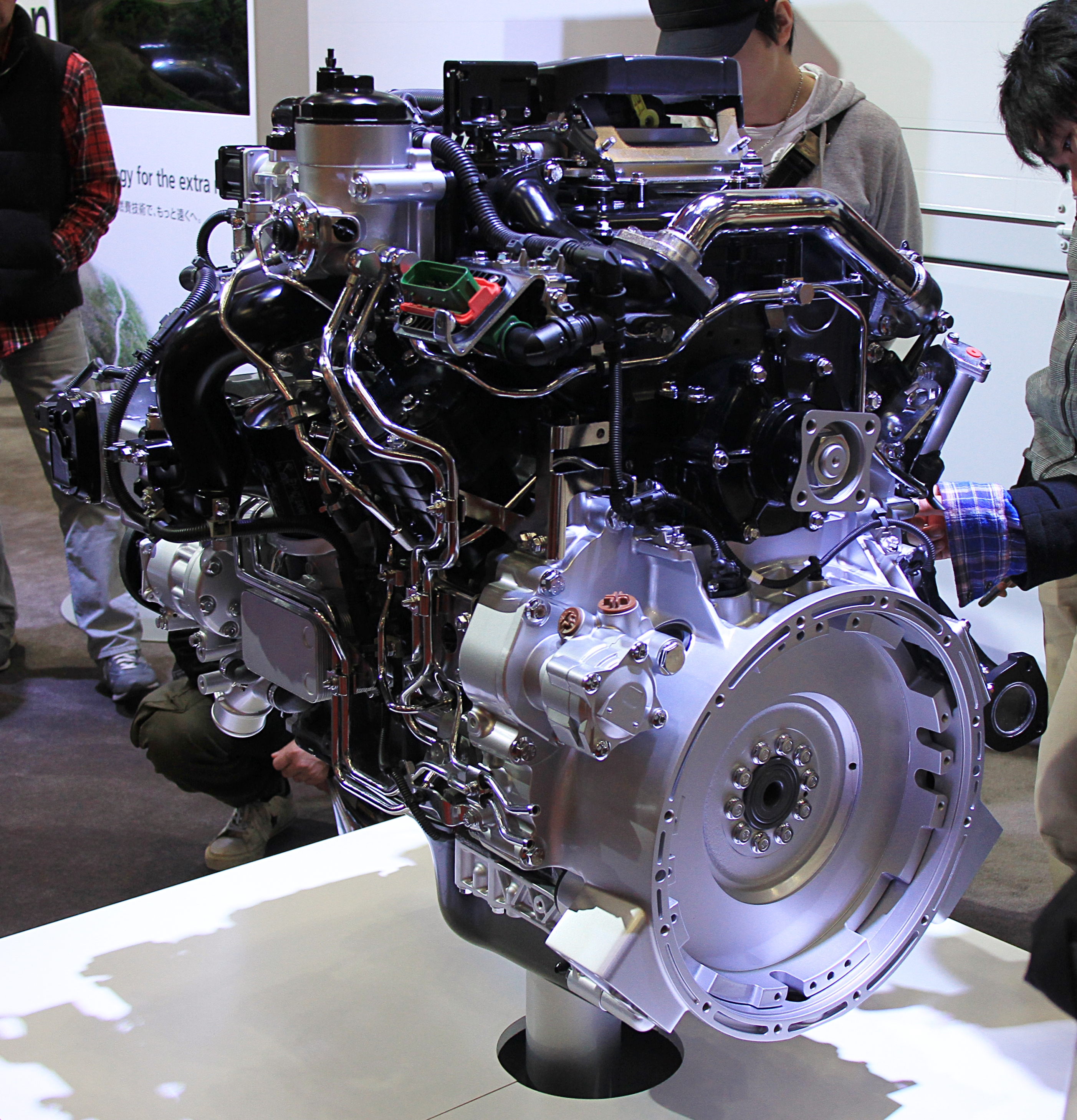 UD GH5